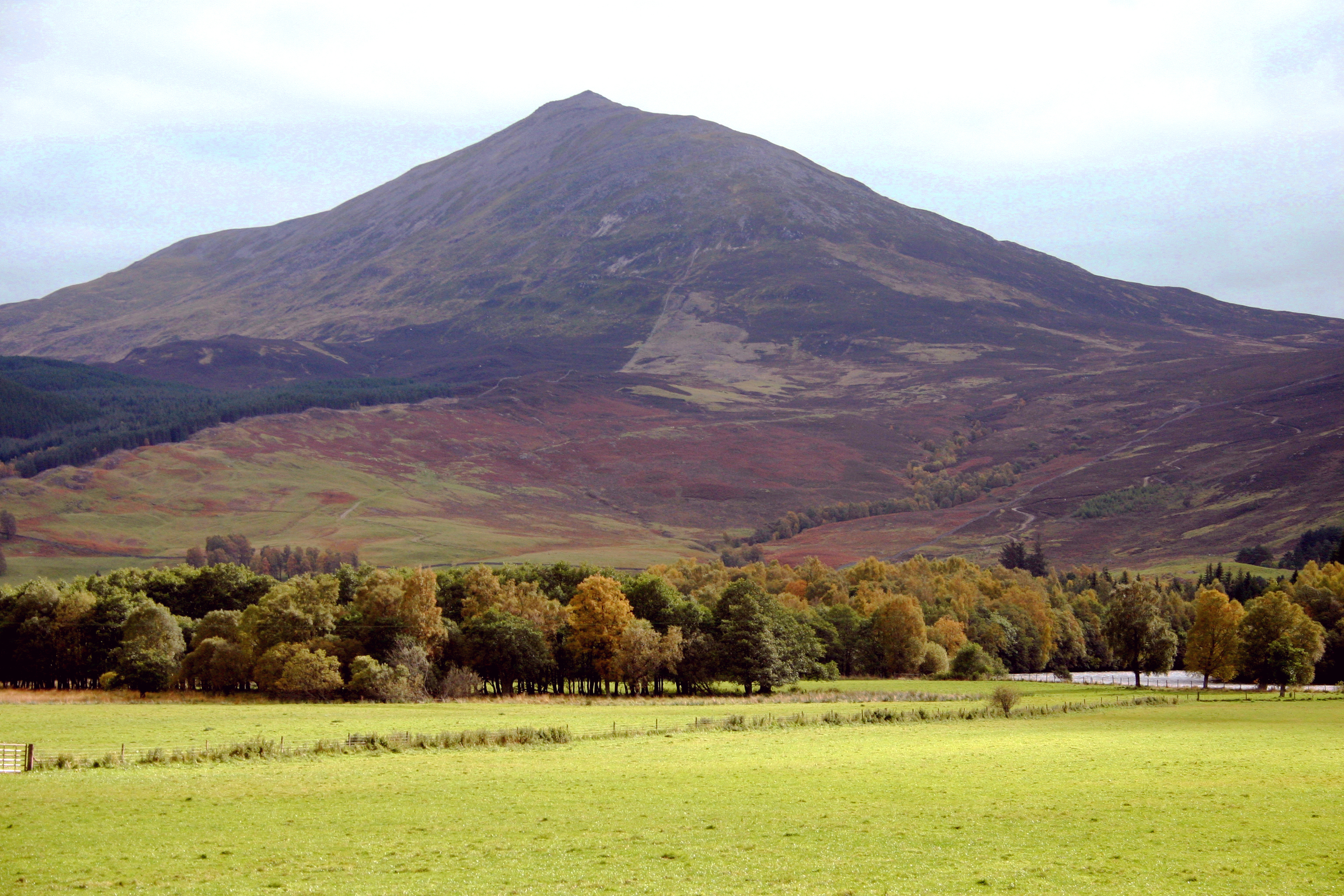 Schiehallion viewed across the River Tay, with its characteristic symmetry.